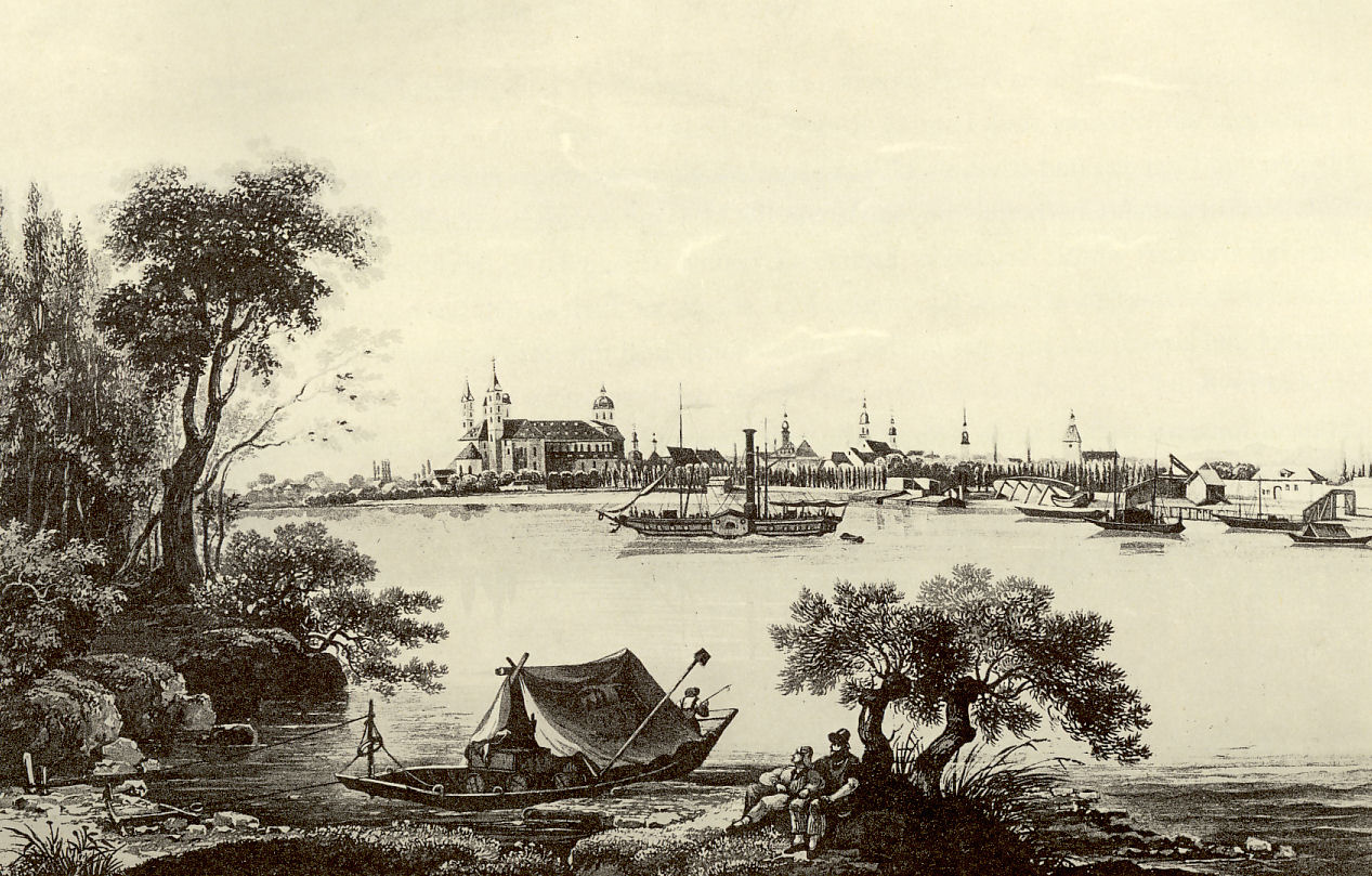 historical sight of the German place of Speyer by Federle and Salathé